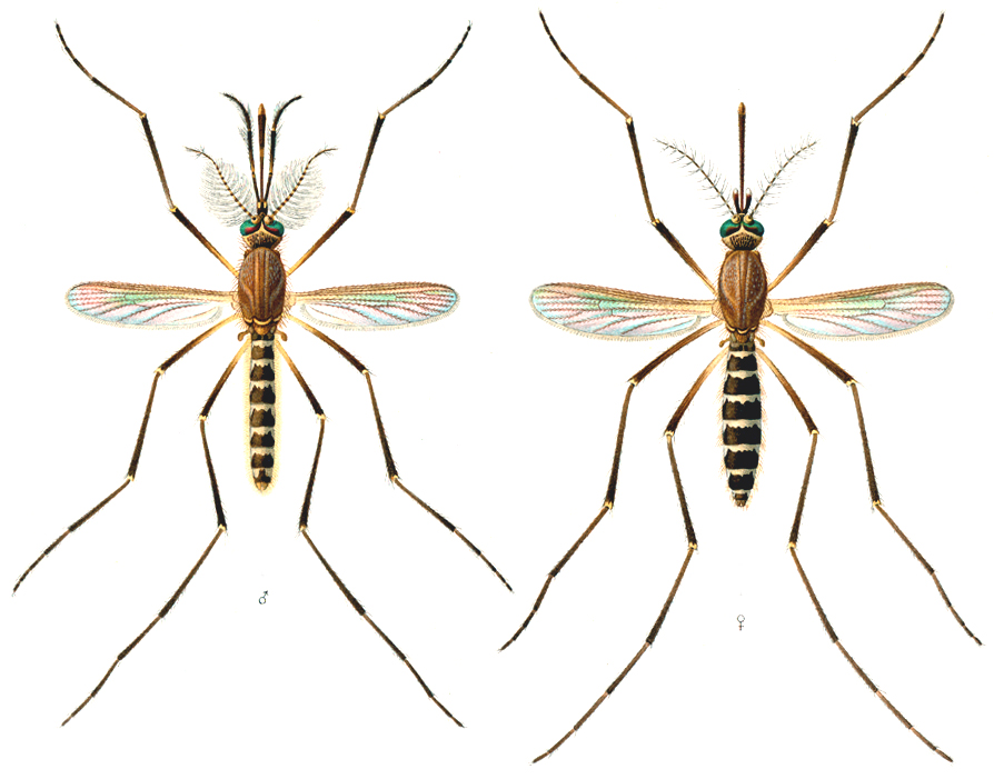 Colour print of the southern house mosquito Culex quinquefasciatus (then called Culex fatigans, later also Culex pipiens quinquefasciatus). The male on the left, the female to the right.